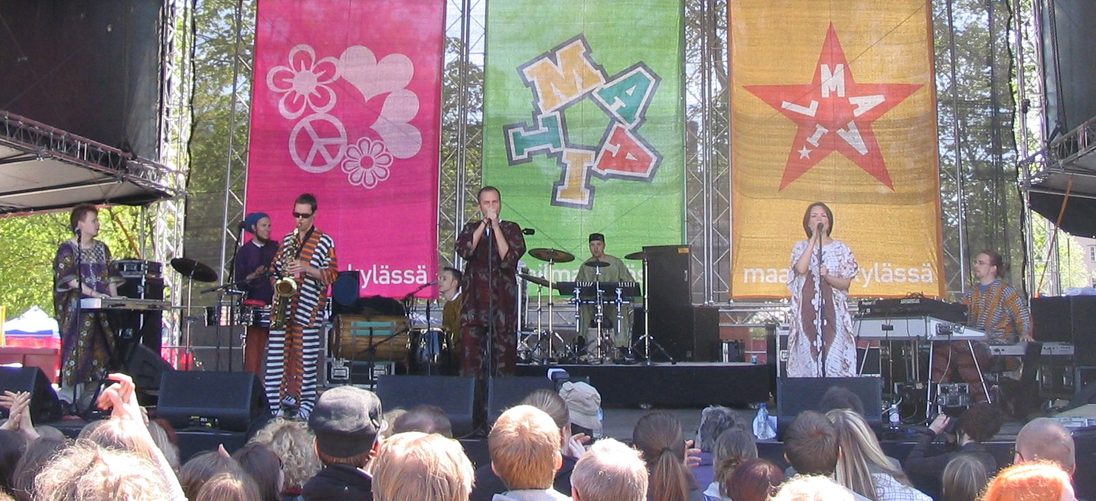 Don Johnson Big Band performing in May 2006 at the "Maailma kylässä" festival in Helsinki, Finland.